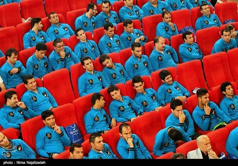 Iranian Athletes Leave for Incheon Asian Para Games